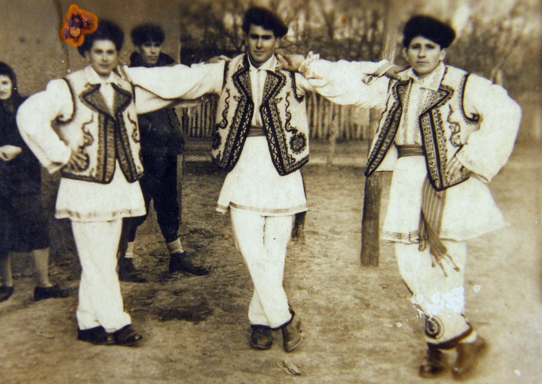 Folk dance side from the village Vintilești, Bordei Verde commune, Brăila County, România, 1958.